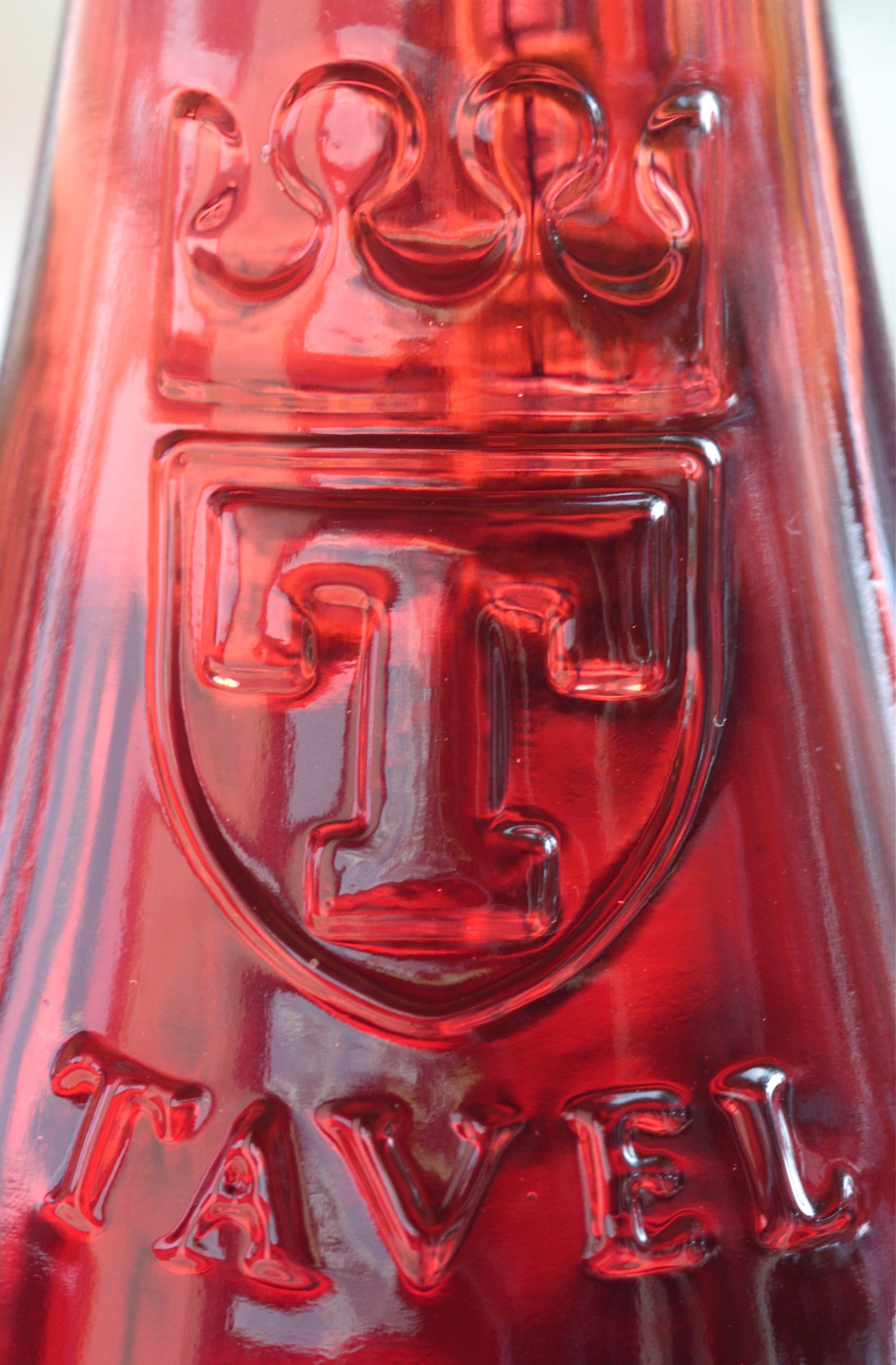 Pretty Pink Rosé